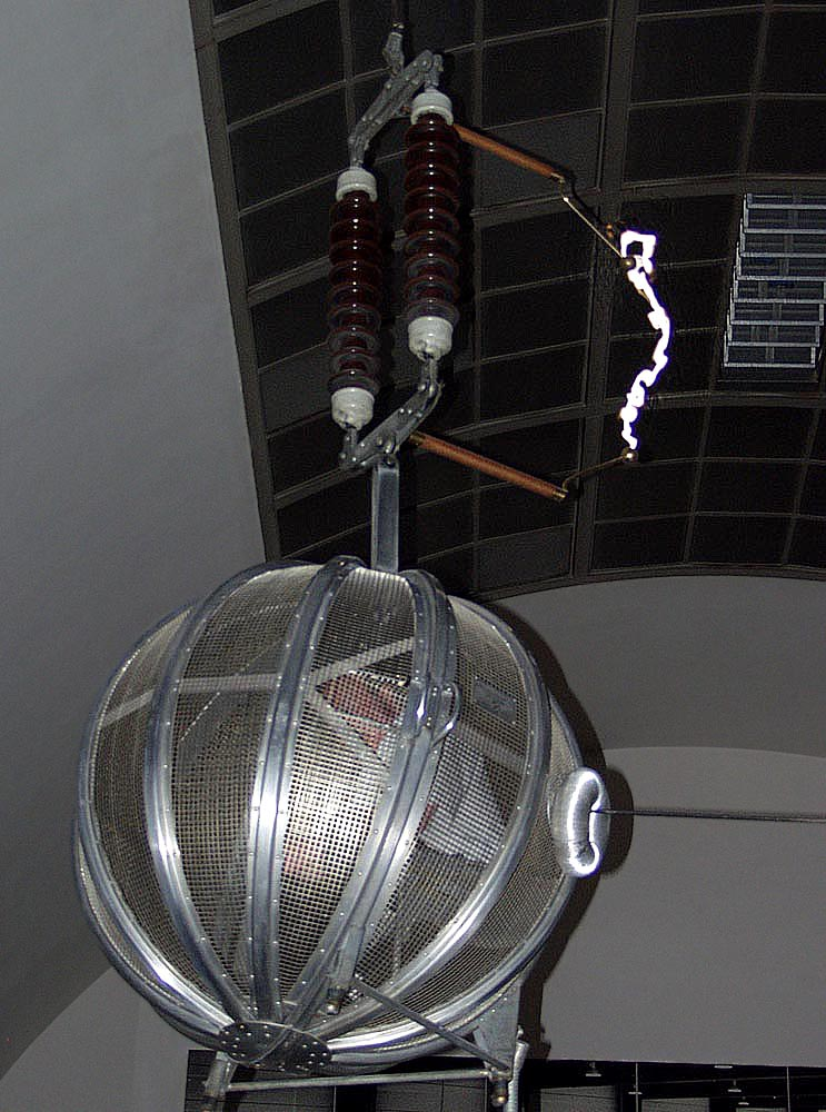 An employee at the Deutsches Museum within a Faraday Cage with spark gap